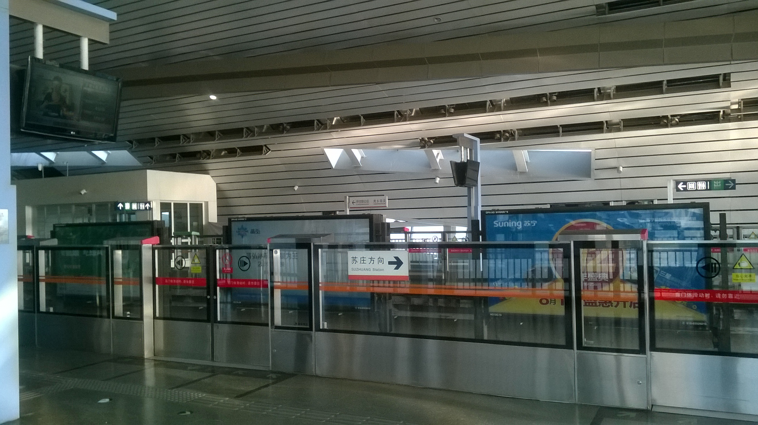 platform of Liangxiangnanguan Station, Fangshan Line, Beijing Subway